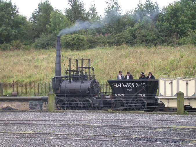 Beamish Museum, County Durham, England. The view south across the Great Shed tracks to the platform, on the Pockerley Waggonway. Steam Elephant is the locomotive in steam today.